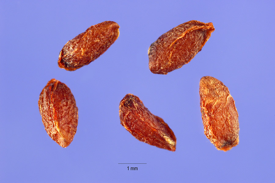 Ribes aureum Pursh - golden currant